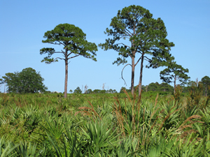 Helen and Allan Cruickshank Sanctuary. Protected pine flatwoods & sand pine scrub, Rockledge, Brevard County, Florida